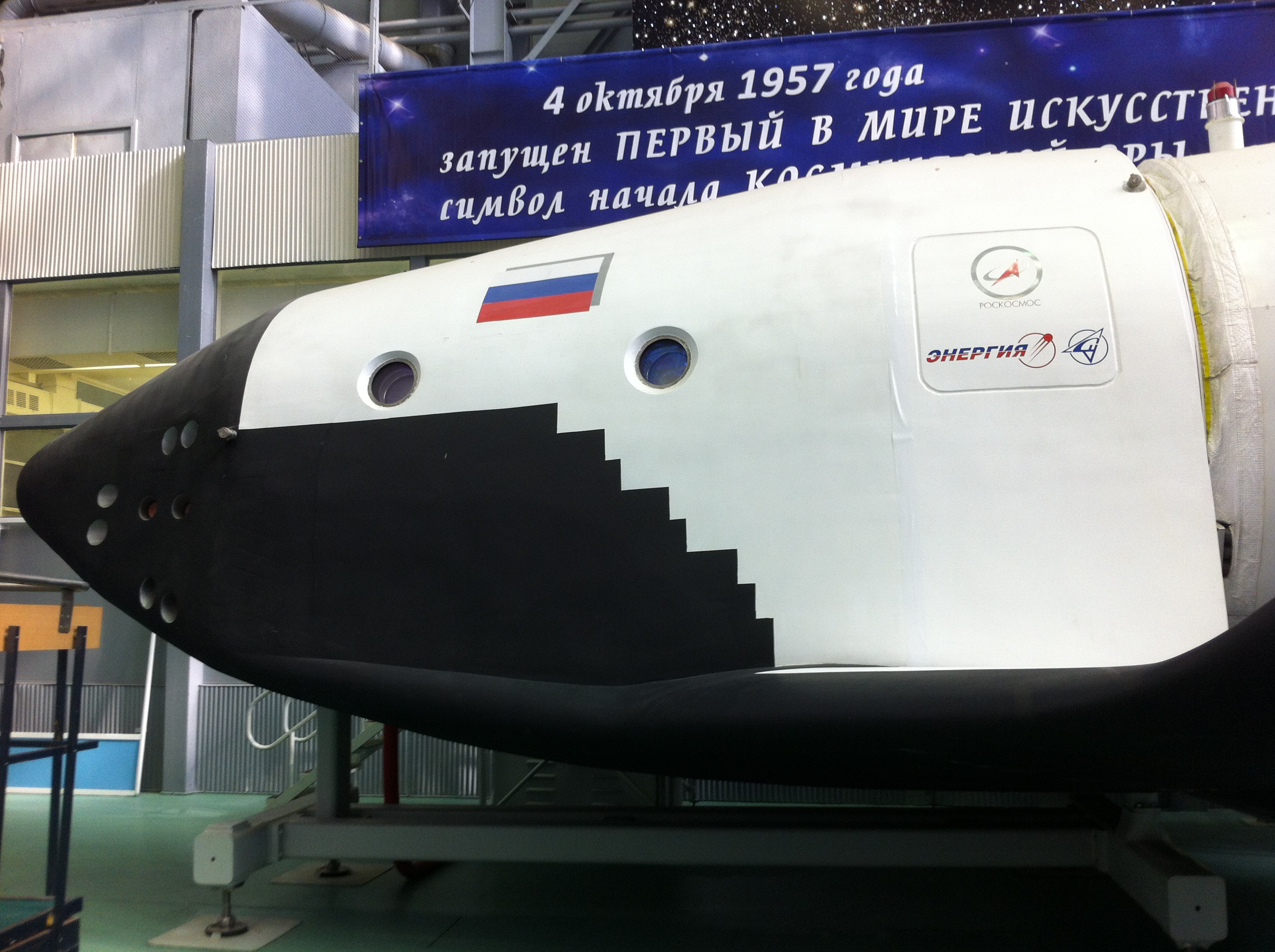 Klipper spacecraft full-size model in RSC Energia museum